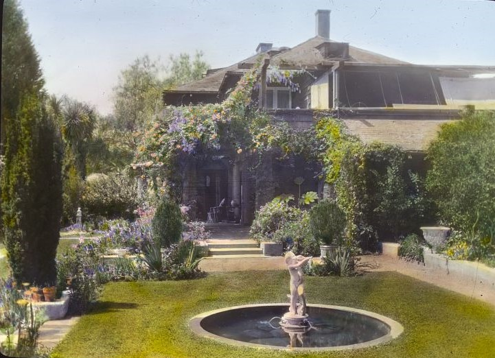 Title [Myron Hunt house, 200 North Grand Avenue, Pasadena, California. View to house] Contributor Names Johnston, Frances Benjamin, 1864-1952, photographer Created / Published [1917 spring] Subject Headings - Gardens--California--Pasadena--1910-1920 - Houses--California--Pasadena--1910-1920 - Fountains--California--Pasadena--1910-1920 - Sculpture--California--Pasadena--1910-1920 - Vines--California--Pasadena--1910-1920 Format Headings Lantern slides--Hand-colored--1910-1920. Notes - Site History. House: Myron Hunt, 1905. Landscape: Myron Hunt, from 1905. Today: Garden not extant; house a private residence. - Slide used with lecture "California Gardens." - Title, date, and subject information provided by Sam Watters, 2011. - Forms part of: Garden and historic house lecture series in the Frances Benjamin Johnston Collection (Library of Congress). - Published in Gardens for a Beautiful America / Sam Watters. New York: Acanthus Press, 2012. Plate 102. Medium 1 photograph : glass lantern slide, hand-colored ; 3.25 x 4 in. Call Number/Physical Location LC-J717-X98- 16 [P&P] Repository Library of Congress Prints and Photographs Division Washington, D.C. 20540 USA Digital Id ppmsca 16090 //hdl.loc.gov/loc.pnp/ppmsca.16090 Library of Congress Control Number 2007685016 Reproduction Number LC-DIG-ppmsca-16090 (digital file from original item) Rights Advisory No known restrictions on publication. Online Format image Description 1 photograph : glass lantern slide, hand-colored ; 3.25 x 4 in. LCCN Permalink